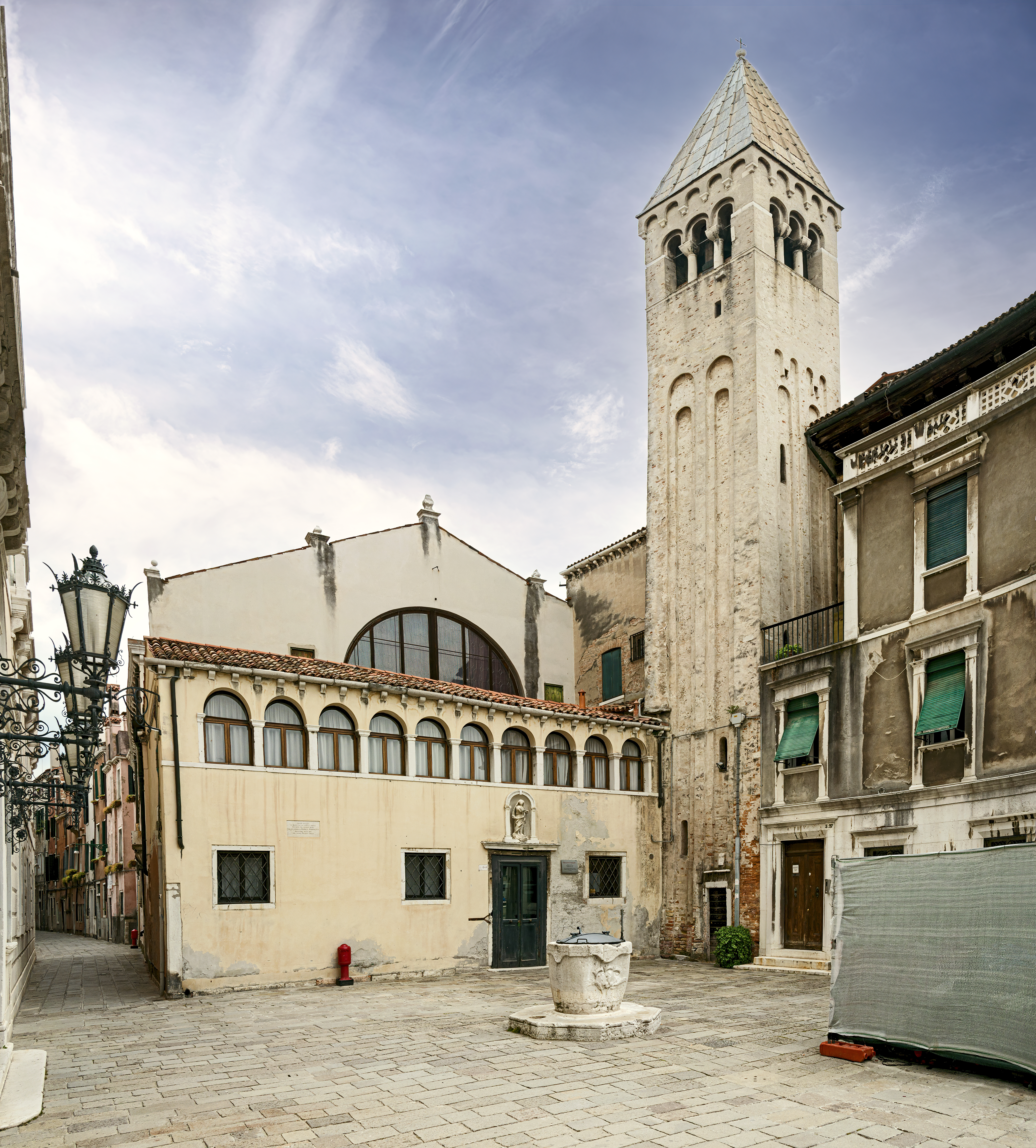 Church San Samuele in Venice- Facade and bell tower